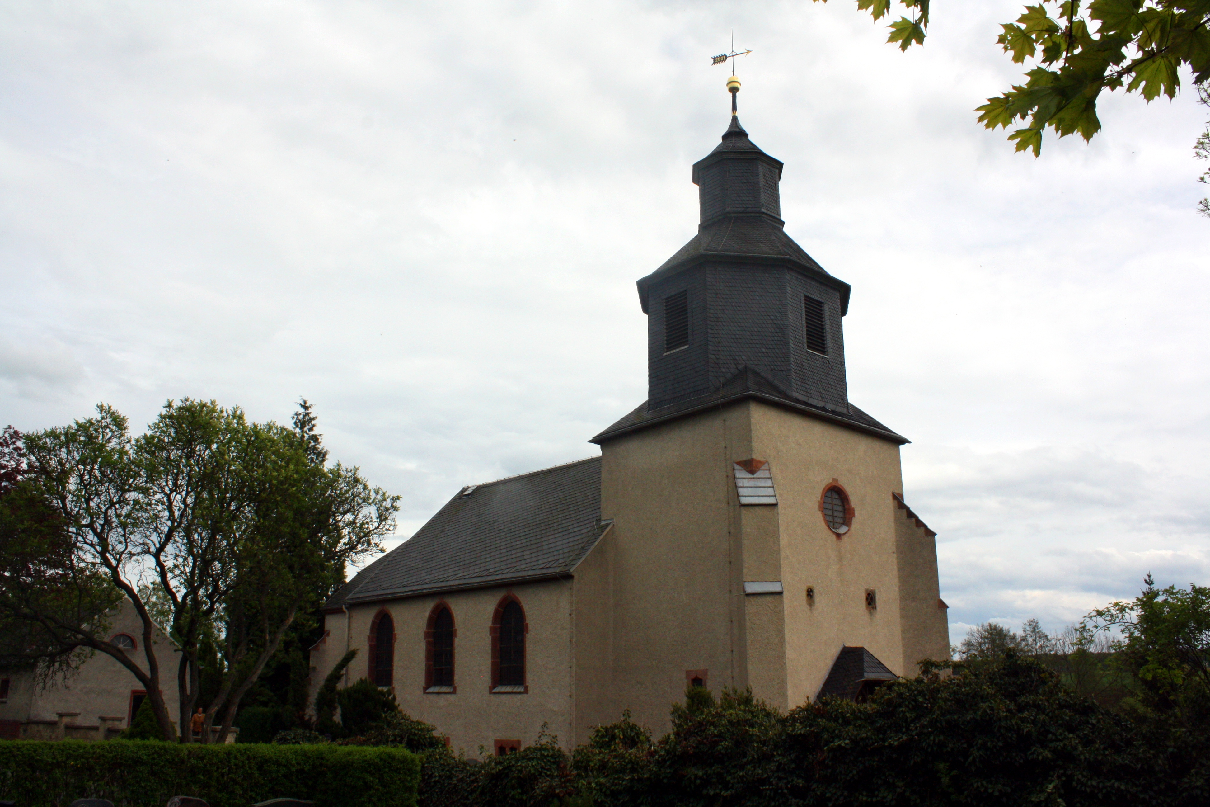 Church in Seelingstädt near Gera/Thuringia